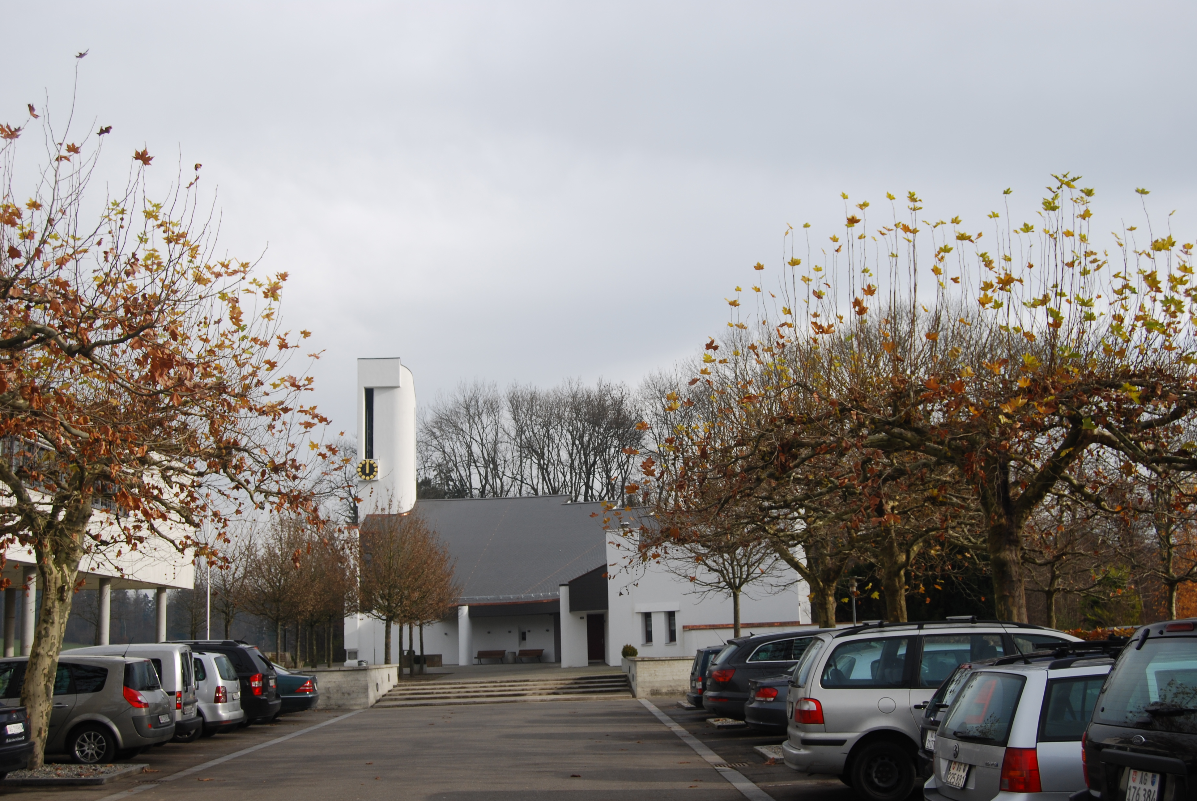 Protestant church of Widen, canton of Aargau, SwitzerlandEsperanto: Reformita preĝejo de Widen, Kantono Argovio, Svislando